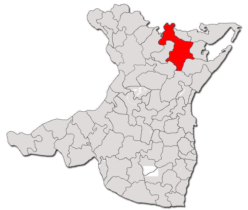 Contour map of commune Cogealac